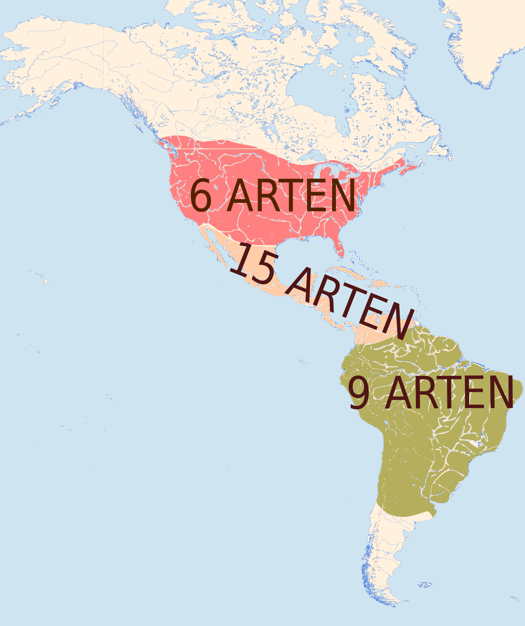 Aproximate Distribution of the genus und number of species in Northamerica, Southamerika and Middle America&Caribbean